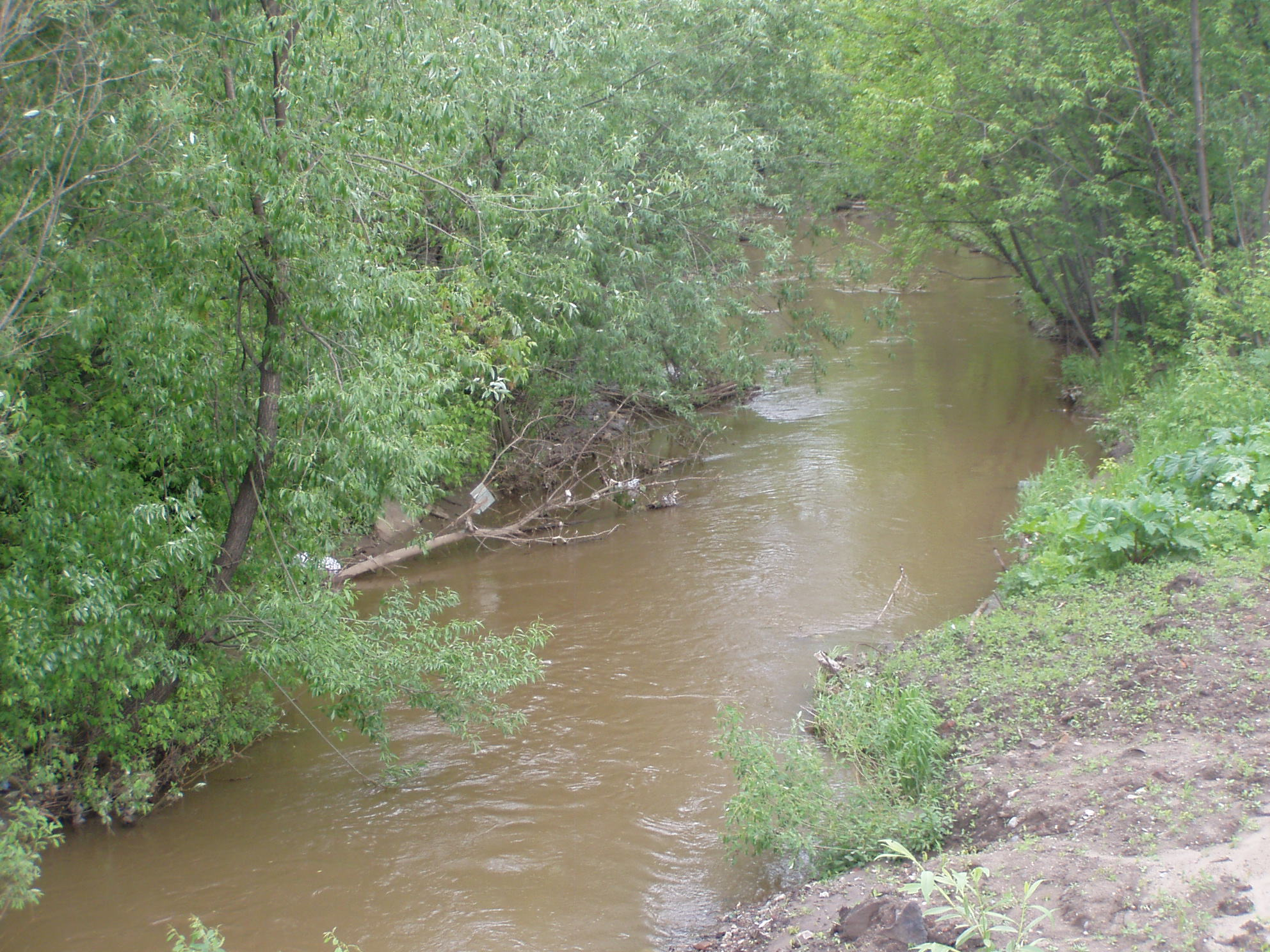 Khlynovka river, Kirov region, Russia